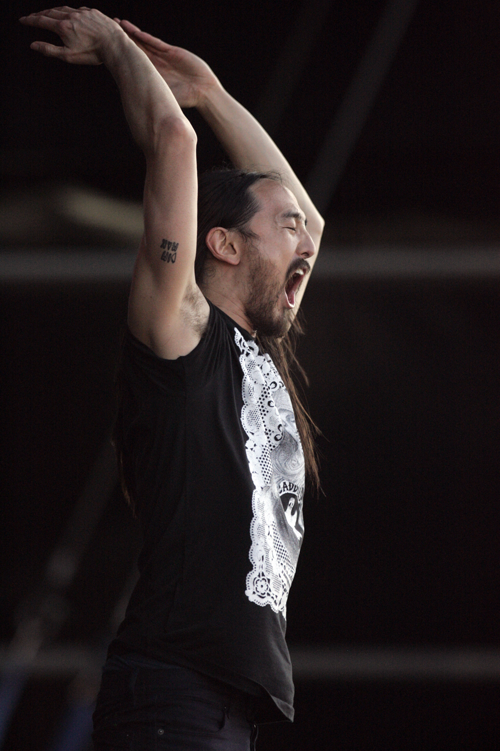 Future Music Festival, Randwick, Sydney, Australia...